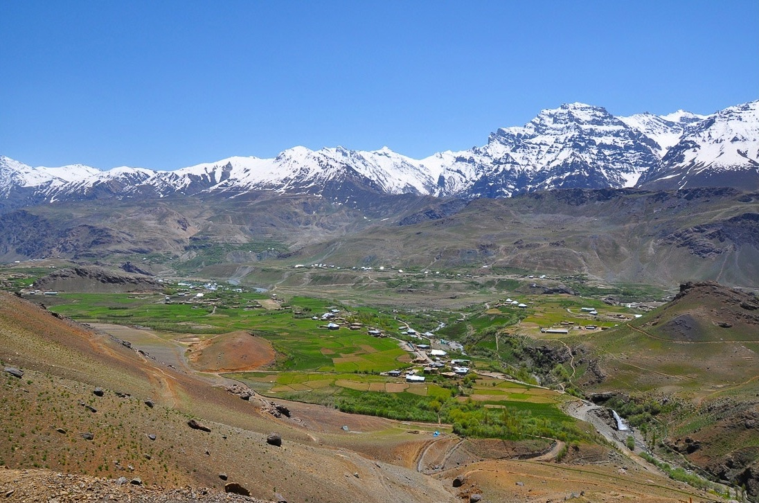 Town of Drass,second coldest place on earth